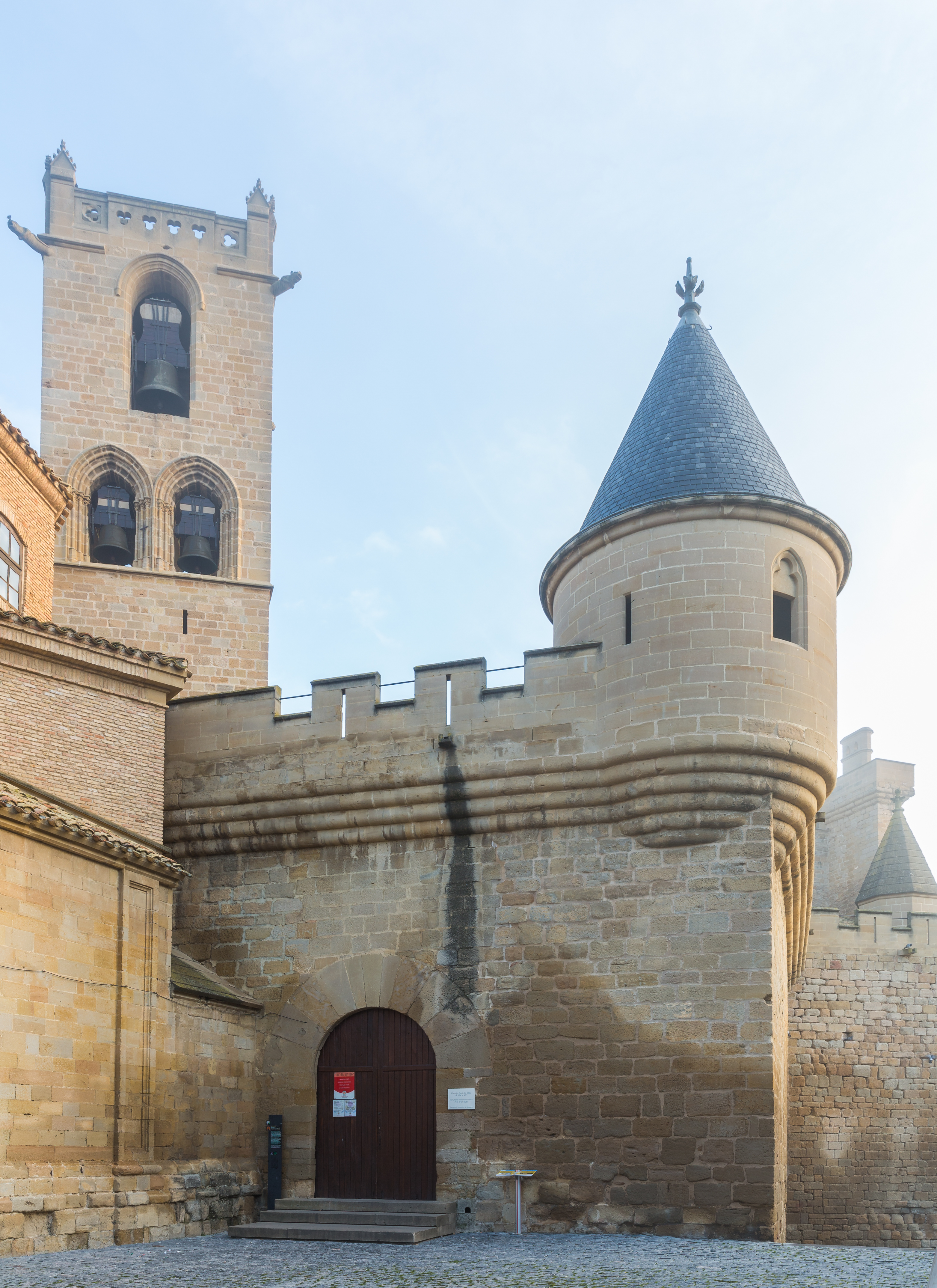 Royal Palace of Olite, Navarre, Spain